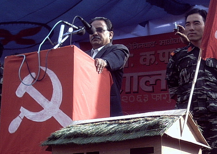 Prachanda (Nepali communist leader) at a meeting in Pokhara